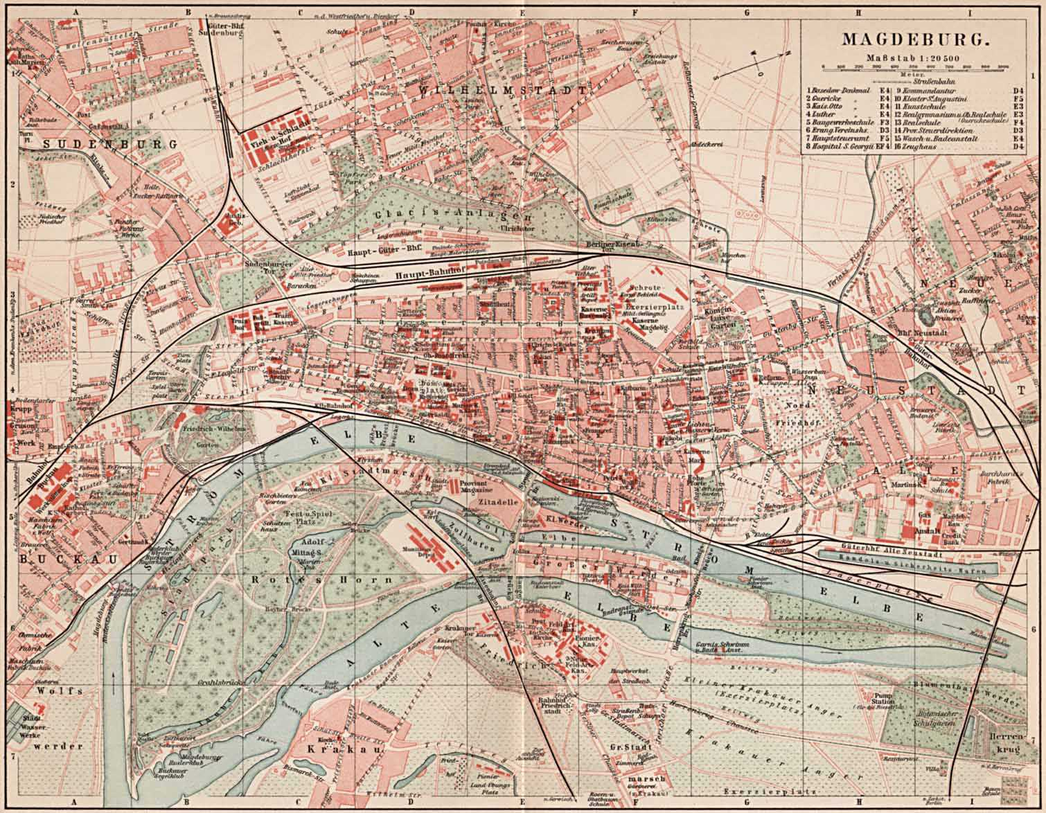 Historical map of Magdeburg